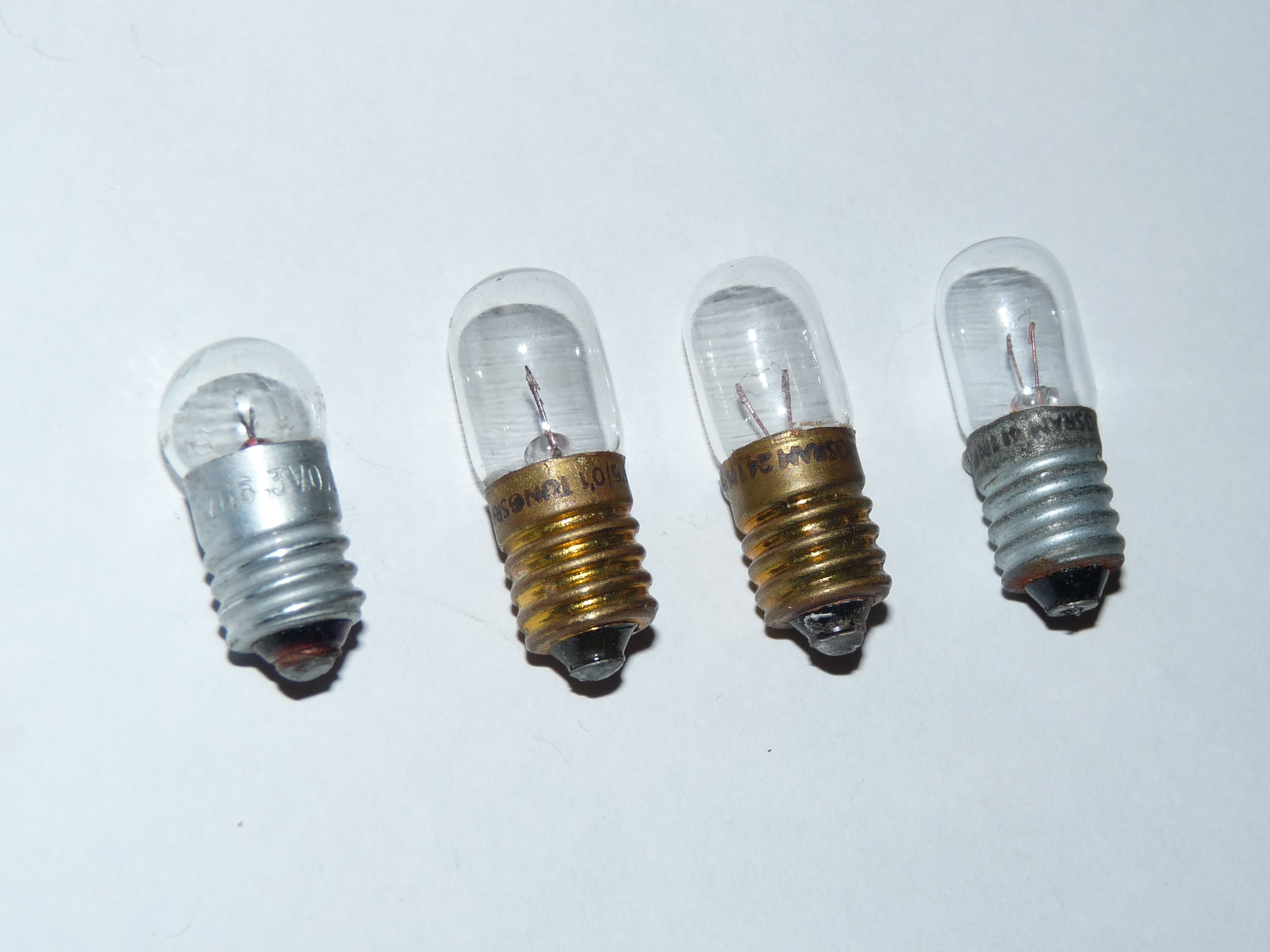 E10 torchlamp light bulbs